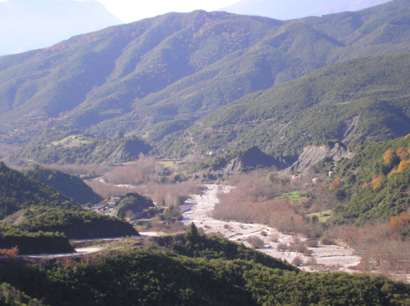 River Granitsiotis in Evrytania prefecture, Greece.